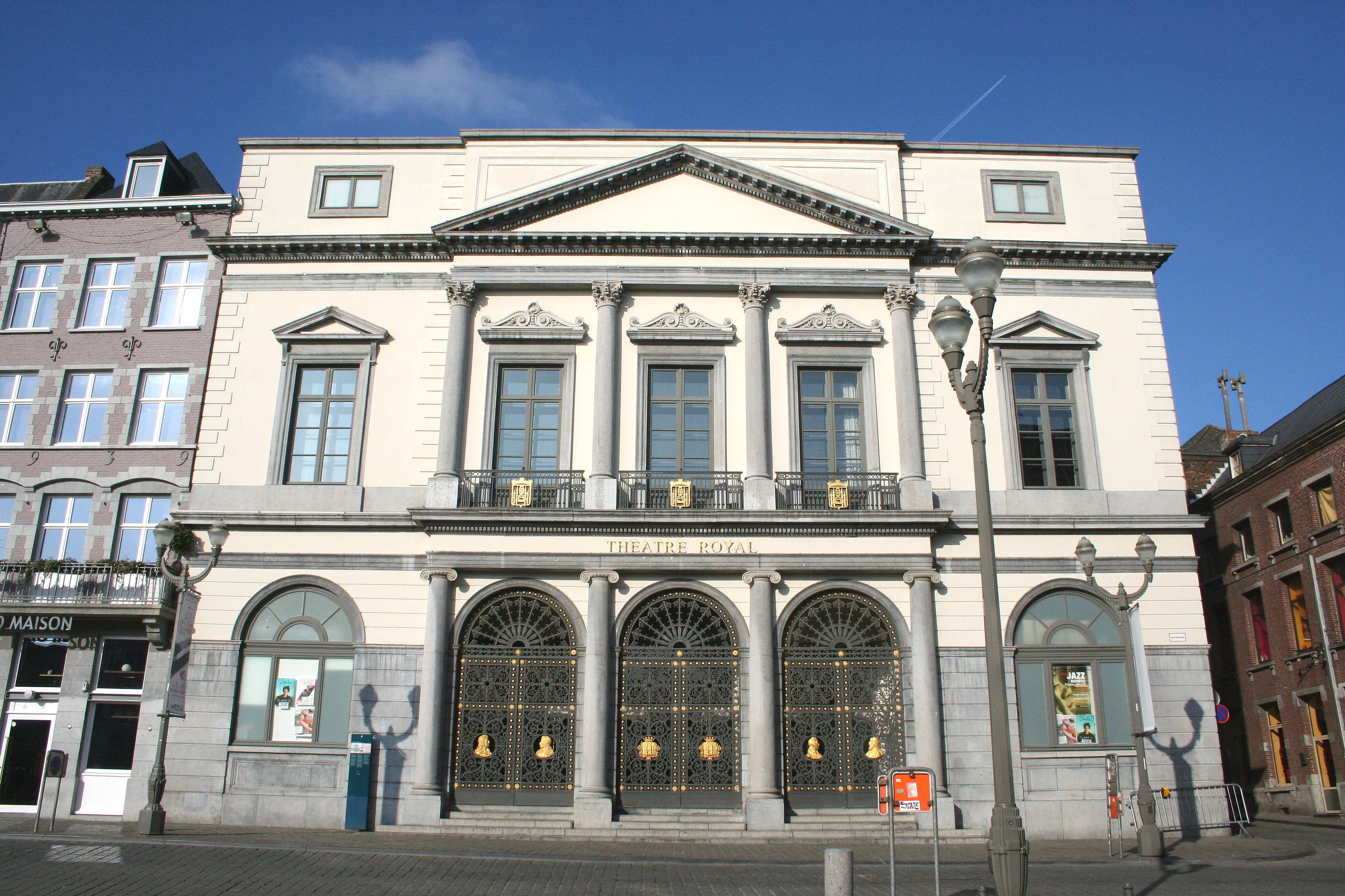 Mons (Belgium), Mons Royal Theater (1841-1843).